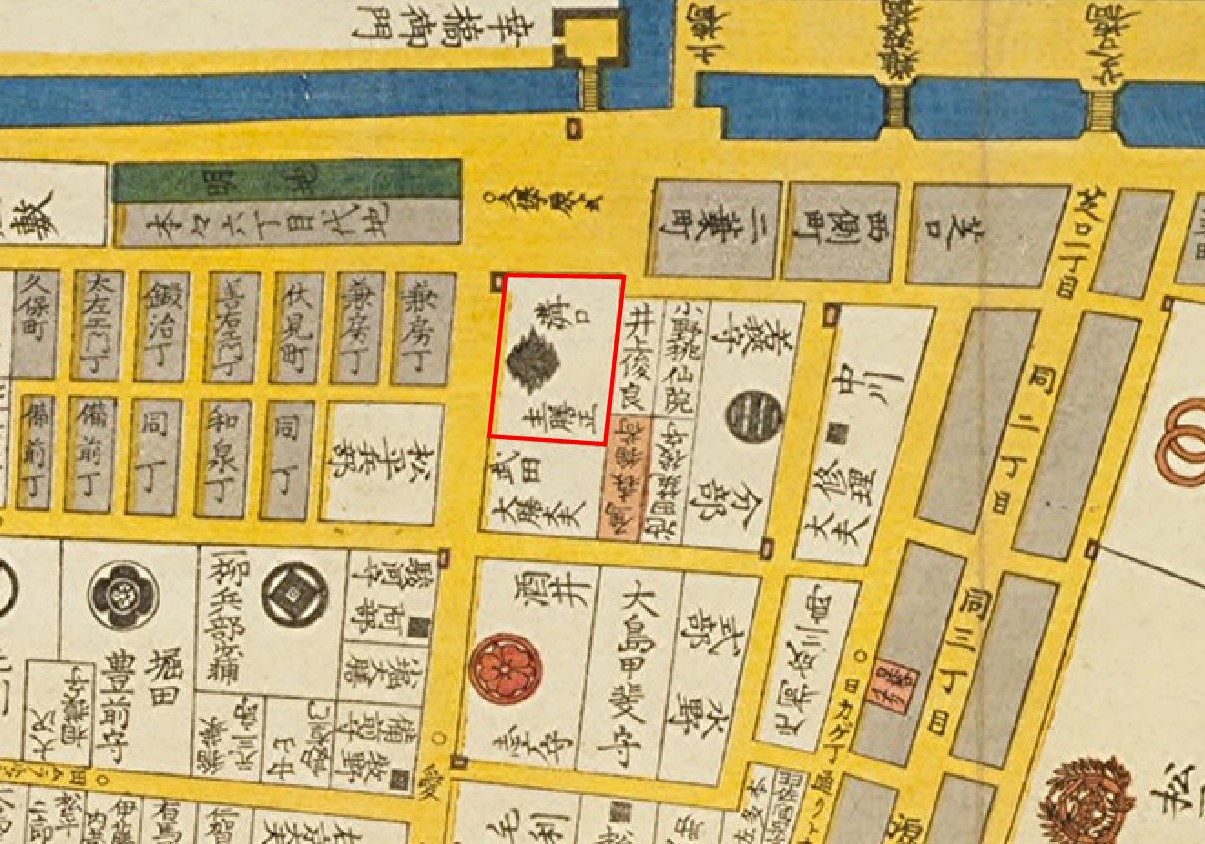 Residence of Mizoguchi clan at Edo